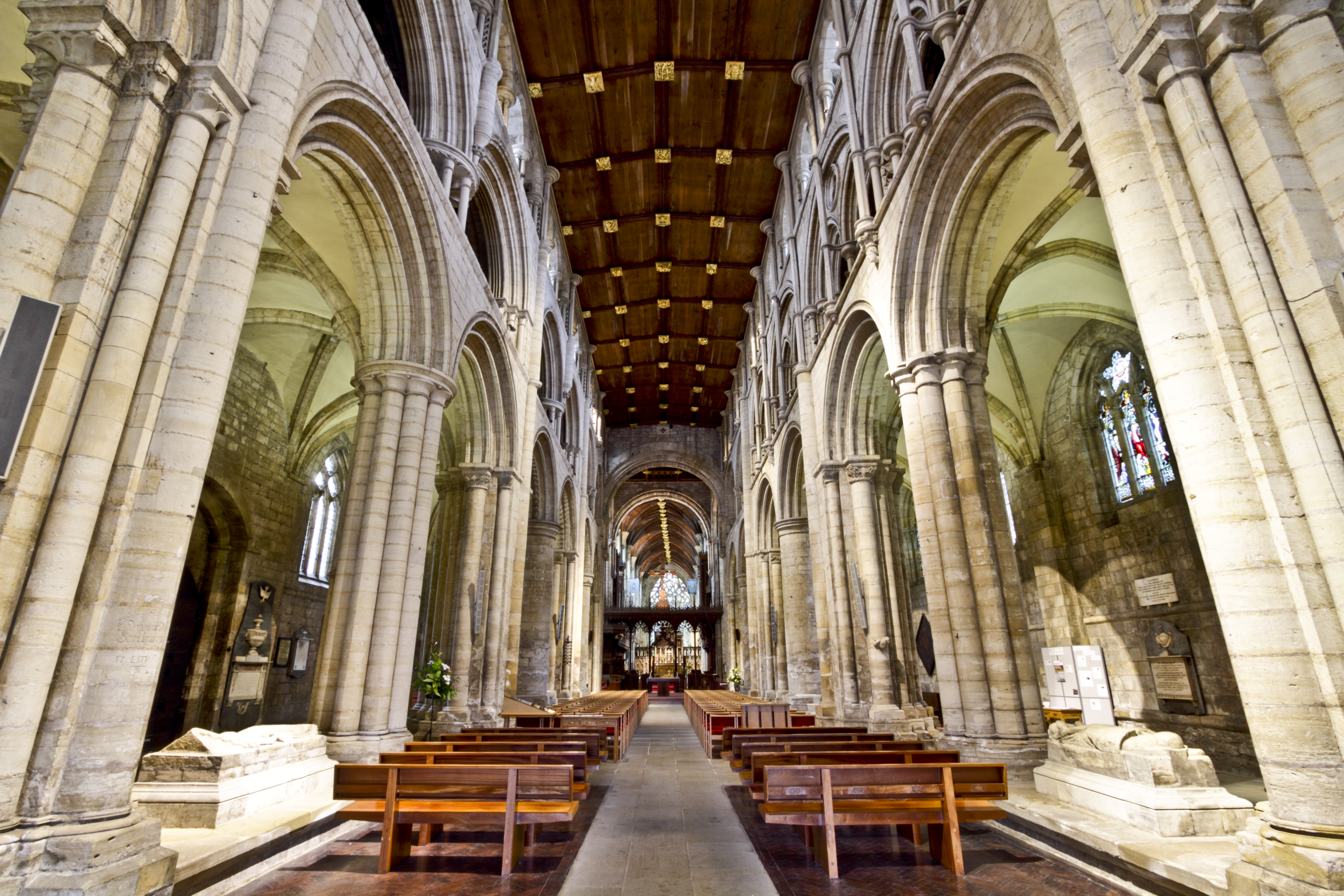 Nave in Selby Abbey. Located in Selby, Yorkshire, England, UK.